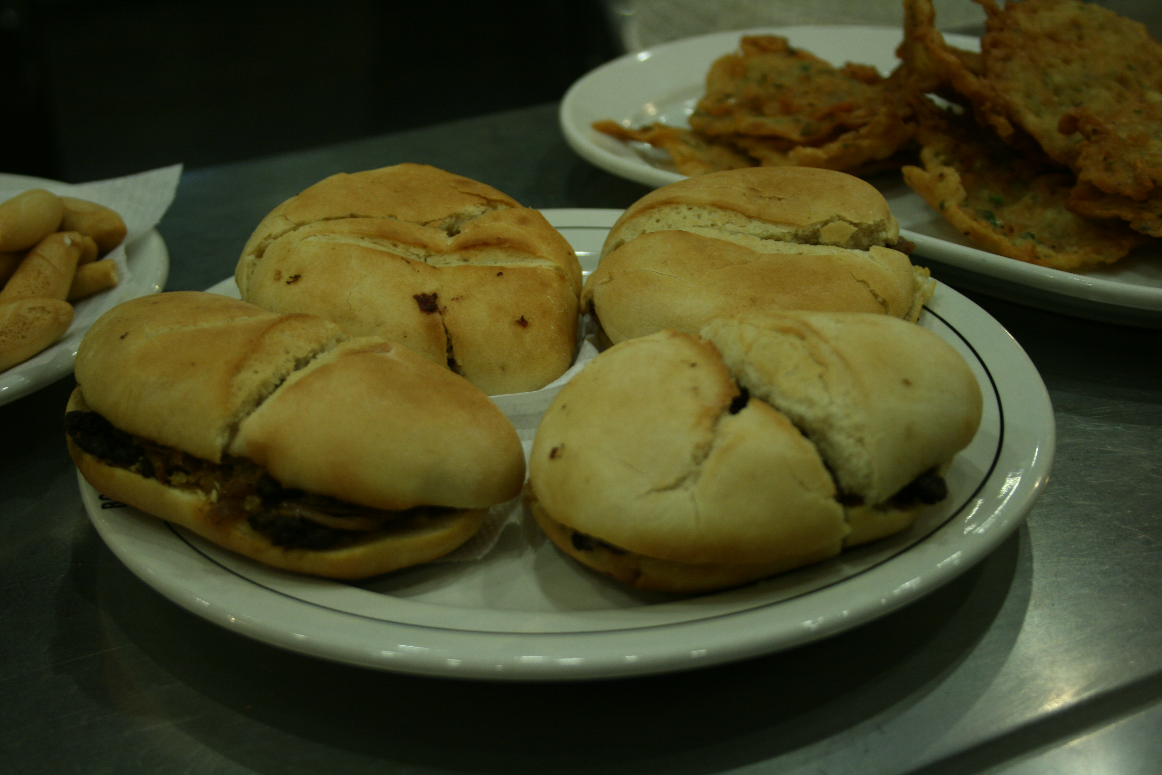 Pringá: consists of roast beef or pork, cured sausages such as chorizo and morcilla, and beef or pork fat that is slow cooked for many hours until the meat falls apart easily